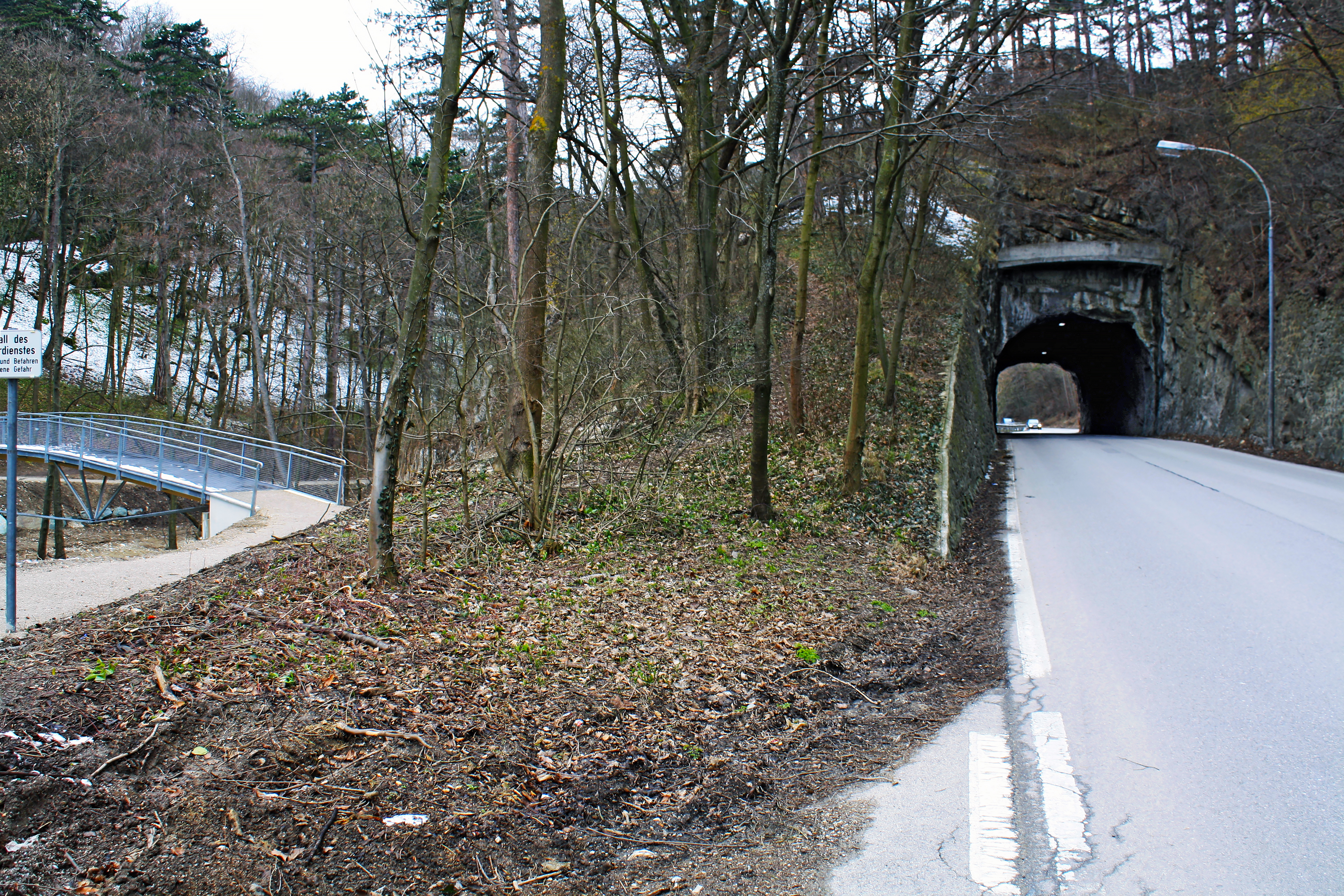 Urtelstein tunnel in Baden Lower Austria at entrance of Helenental